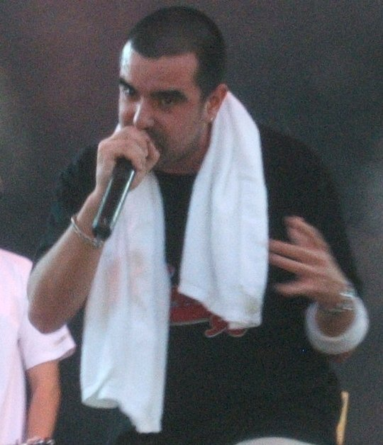 Xhelazz is a spanish MC